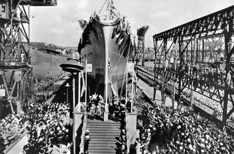 Launching of german heavy cruiser Prinz Eugen